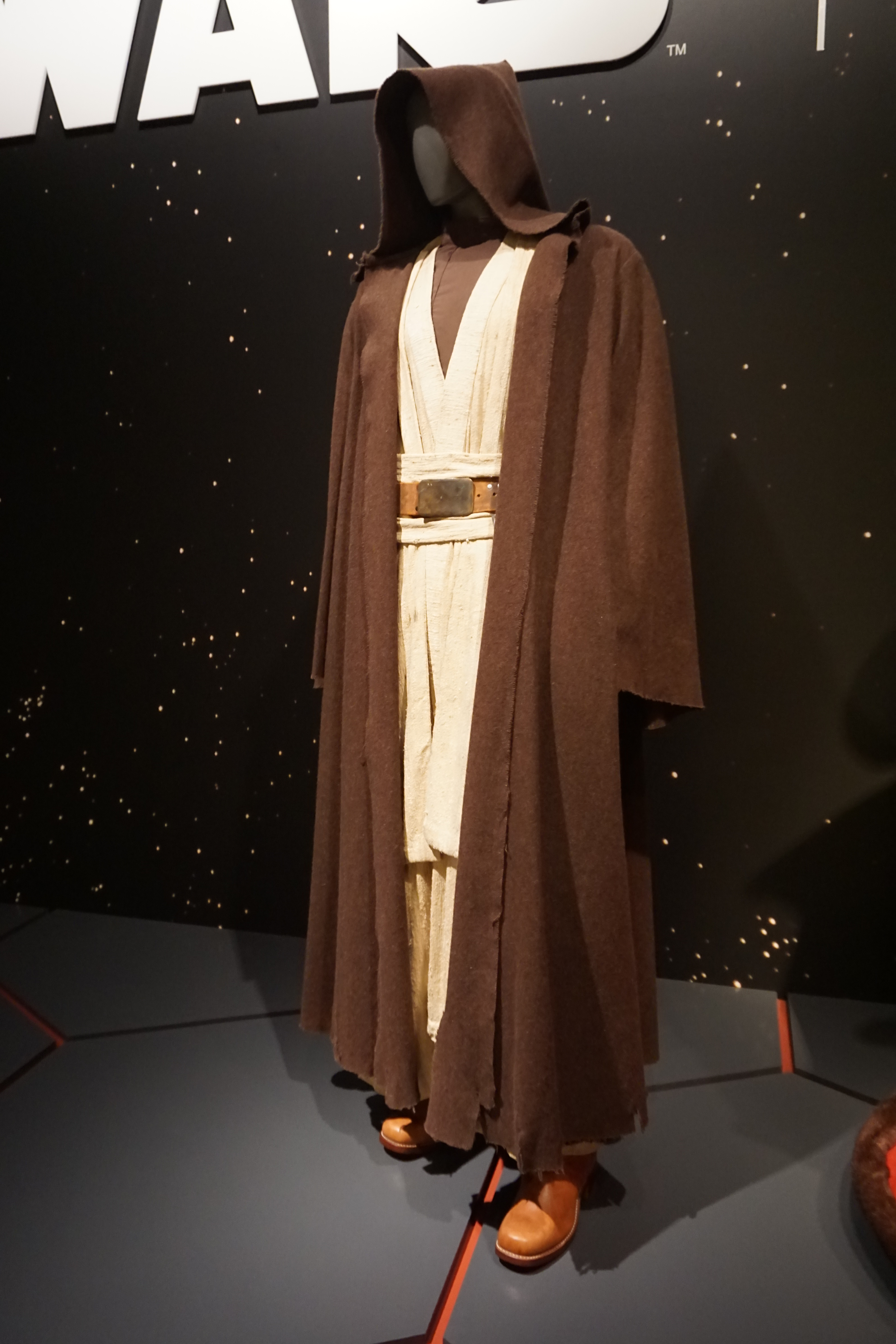 Obi-Wan Kenobi's Jedi robes from Star Wars: Episode IV – A New Hope on display at the Star Wars and the Power of Costume traveling exhibit at the Detroit Institute of Arts in Detroit, Michigan (United States).